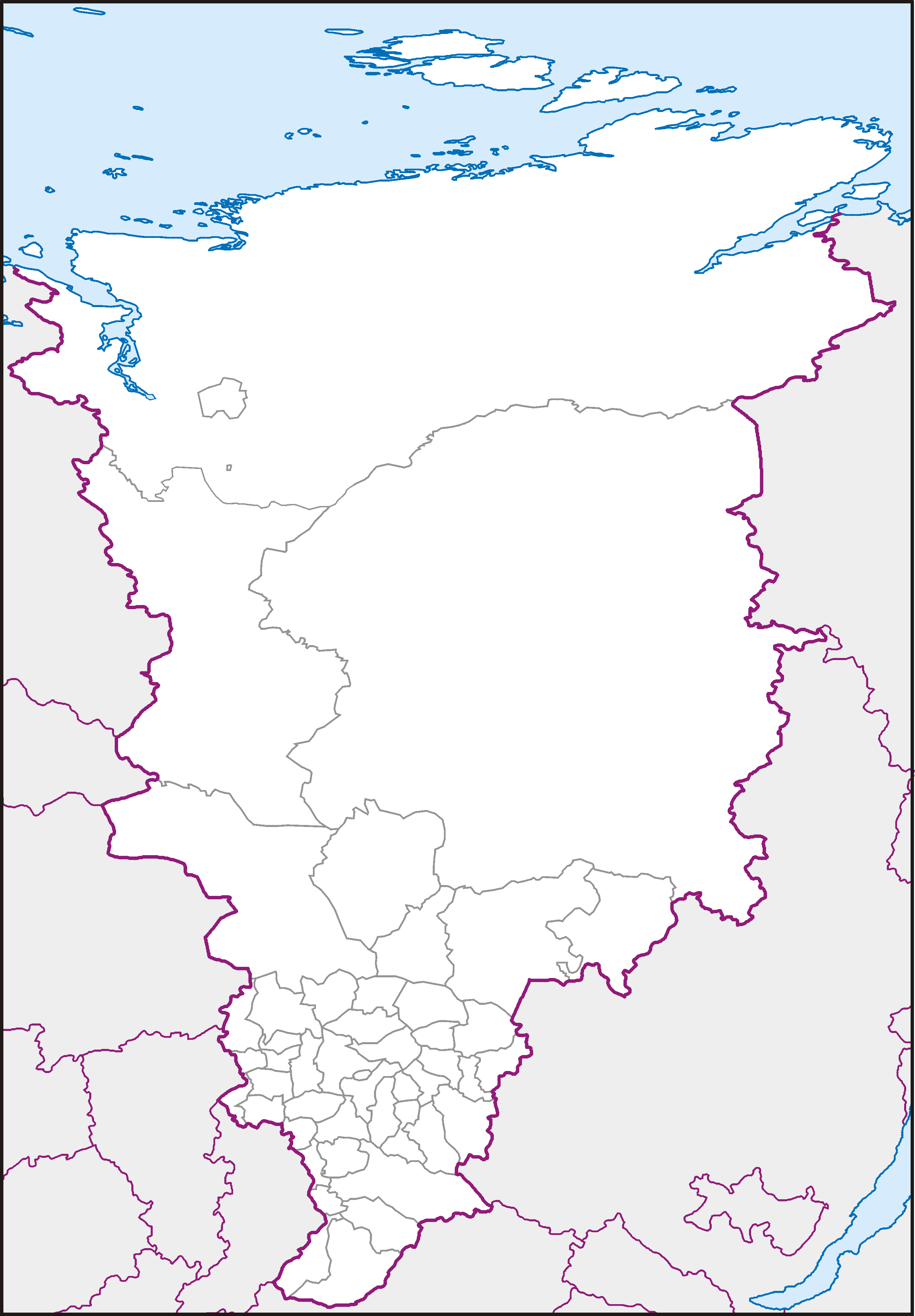 Map of Krasnoyarsk Krai in Albers Equal-Area Conic projection (Central Meridian = 95° E)